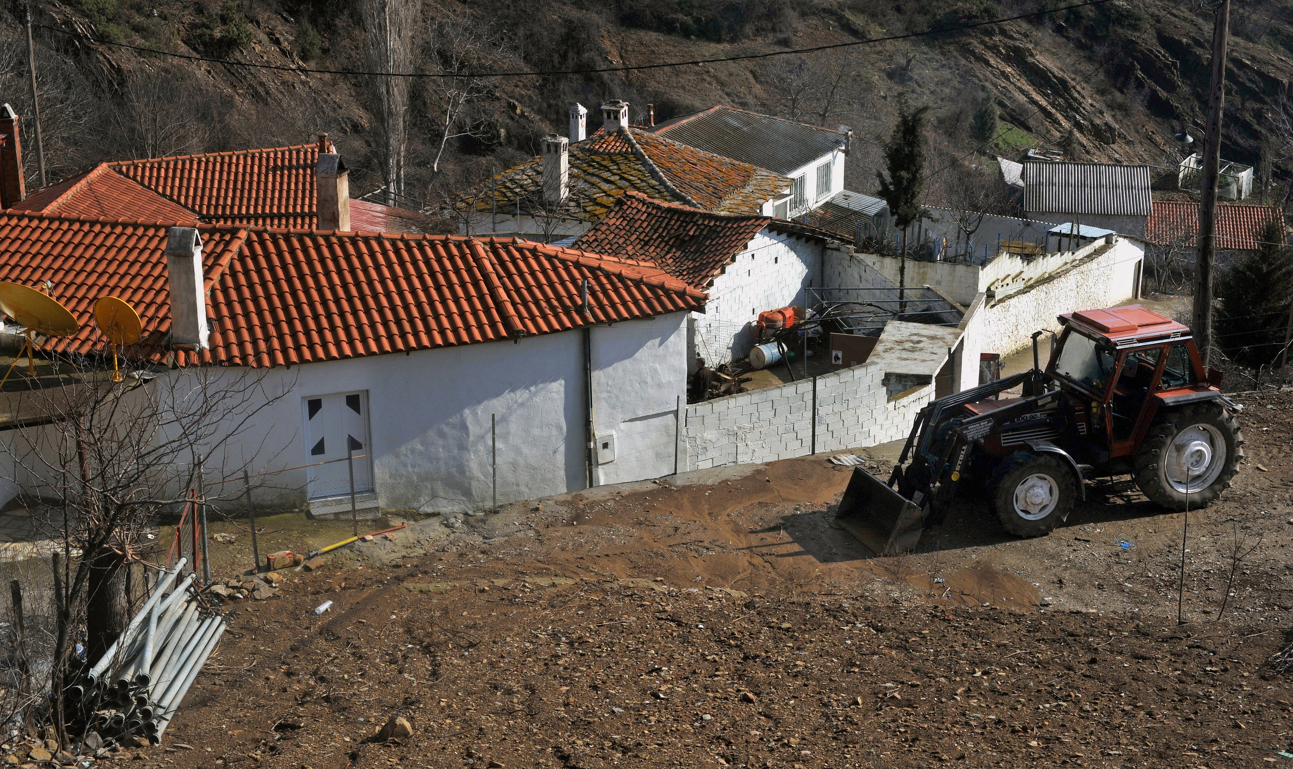 Drimi village, Rhodope, Greece.